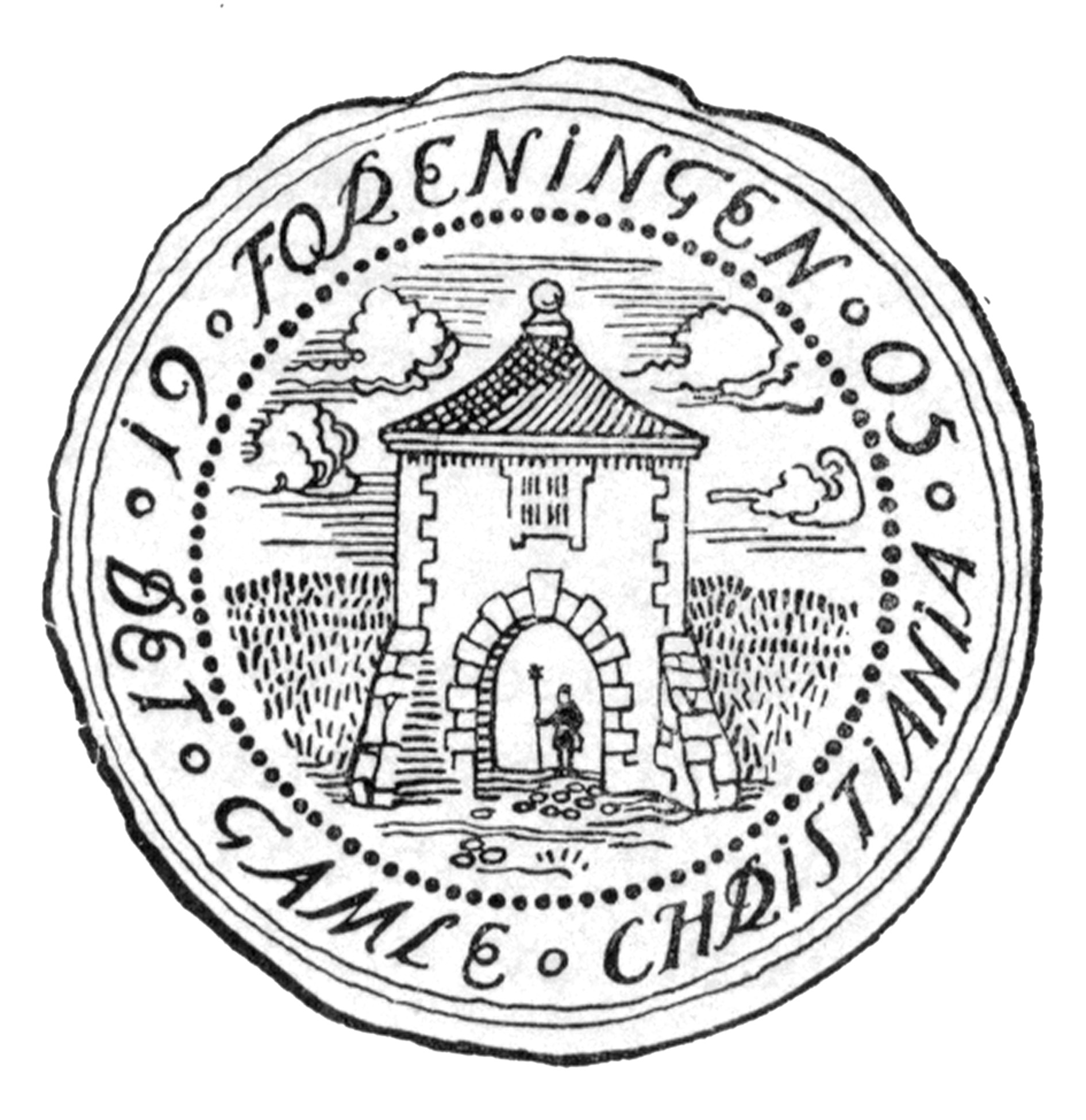 Emblem of the museum society "Det gamle Christiania", founded in 1905. Design by Fritz Holland depicting the 17th century town gate of Christiania.